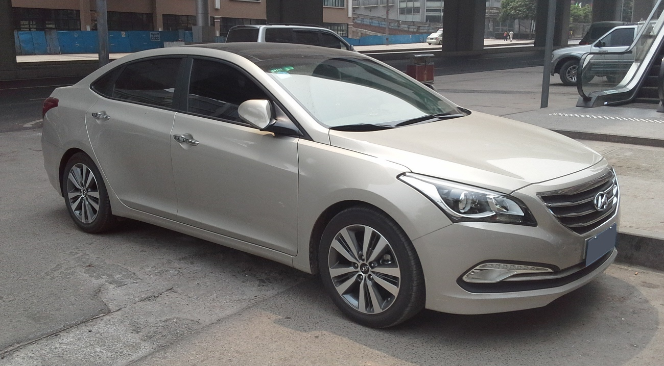 Hyundai Mistra photographed in Chongqing, China.